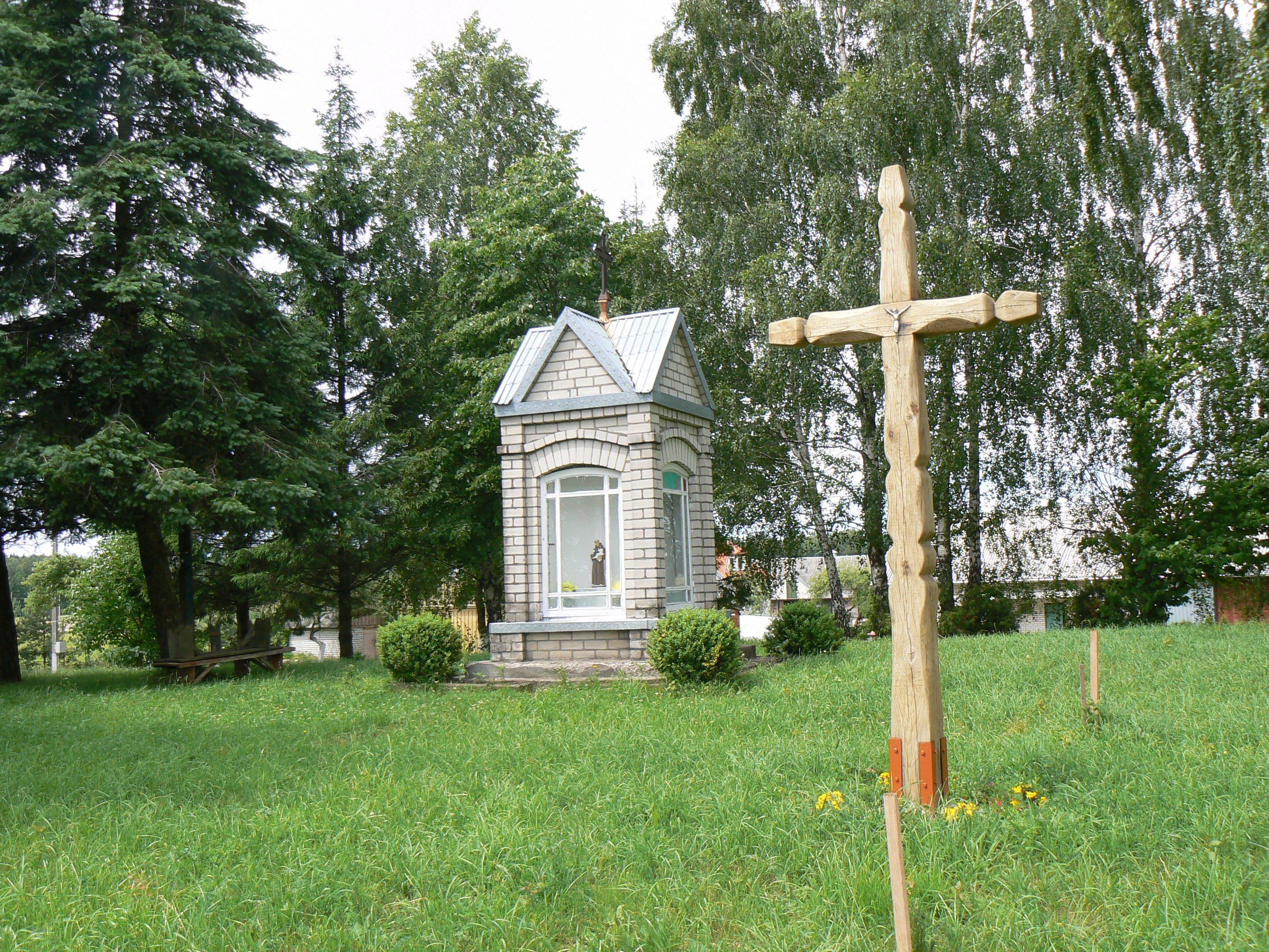 Balsiai (Lithuania)